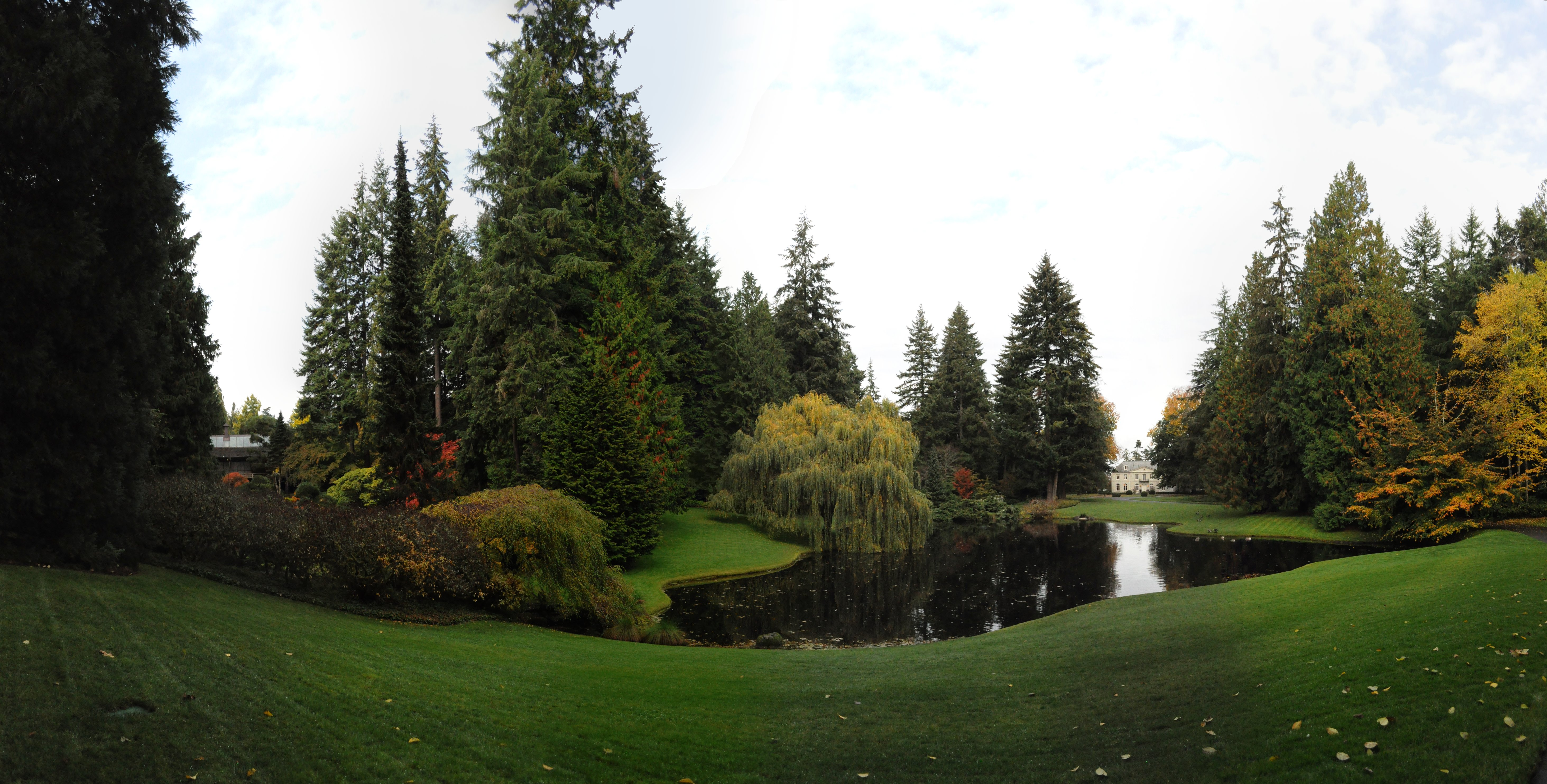 Bloedel Reserve, Bainbridge Island, Washington. Panoramic view extending roughly from the Japanese tea house (near left) to the former Boedel house (now visitor center, near right). This panorama was created from 7 underlying photos. There was slight after-the-fact cleanup with GIMP, entirely of the sky, some of which showed up too gray. This image was created with Hugin